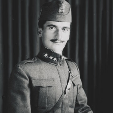 Prenk Pervizi portrait